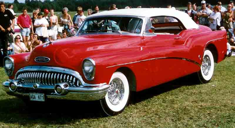 1953 Buick Roadmaster Skylark Series 70 Model 76X Convertible Coupe